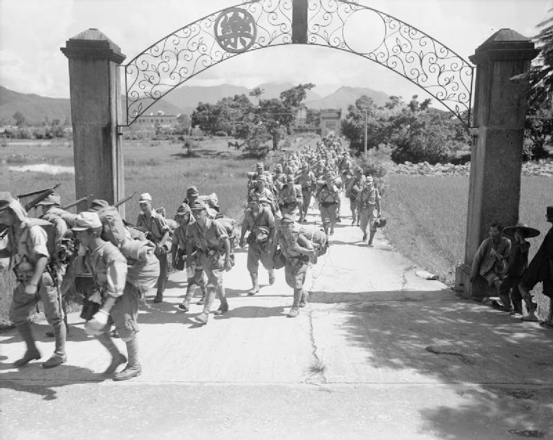 The Allied Reoccupation of Hong Kong, 1945 Japanese troops captured in the Fan Ling area being marched away to prisoner of war camps.